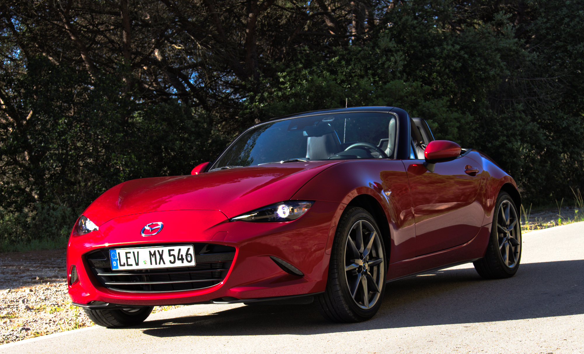 Mazda MX-5 ND 2.0 SKYACTIV-G 160 i-ELOOP Front View